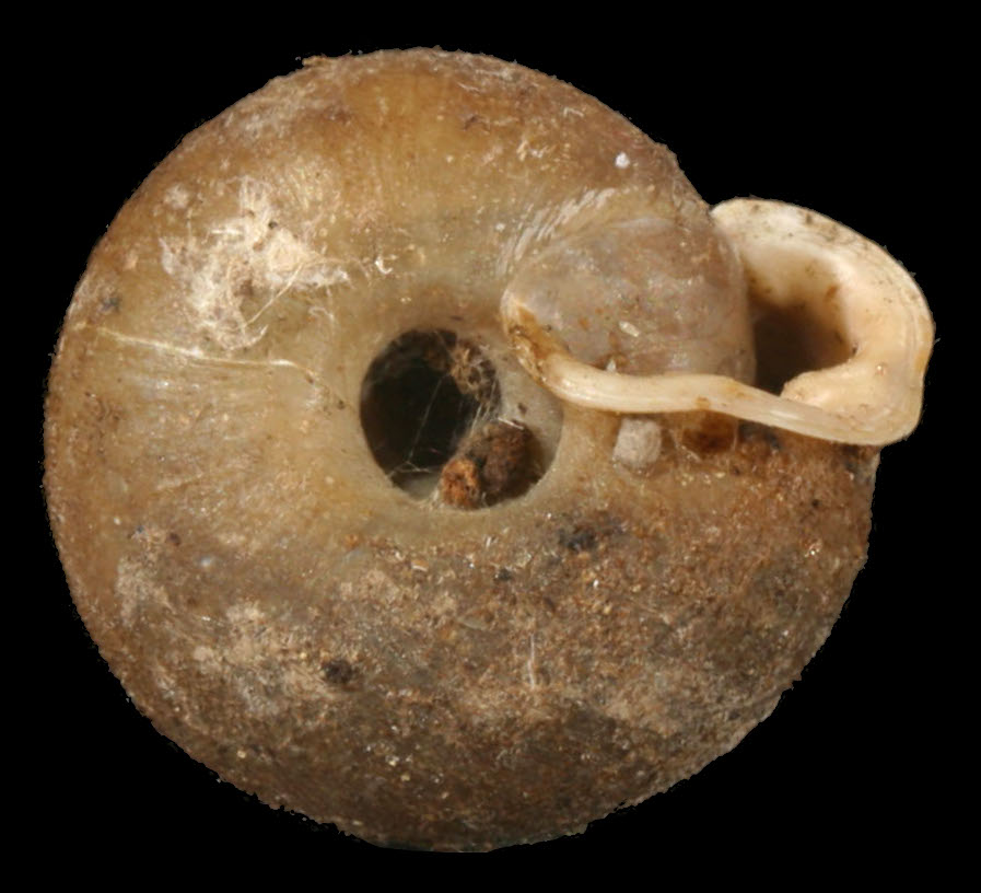 Photo of umbilical view of the shell of Causa holosericea. Locality: Austria: Bärental, 1240 m alt. Date: 03-06-1995.